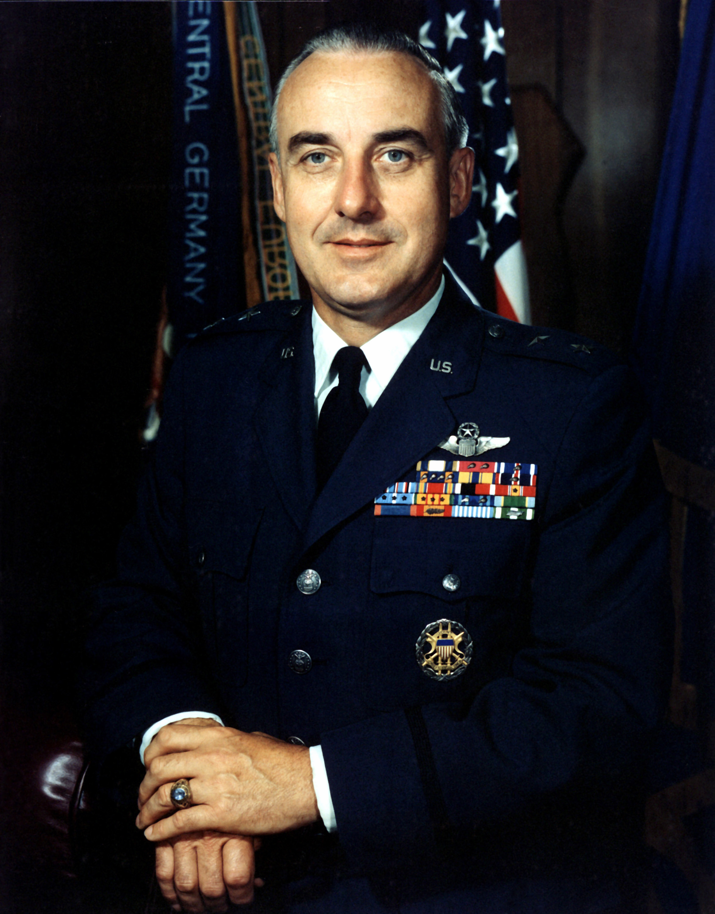 General John W. Pauly (USAF), 1982.